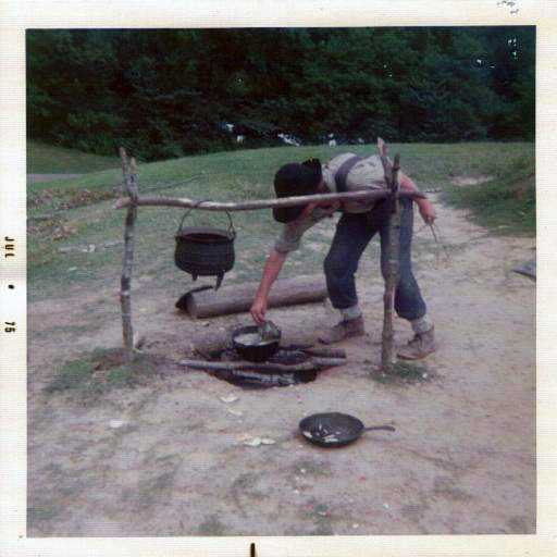 I took photo with Kodak camera of park ranger preparing demonstration campfire at Vicksburg (MS) Military Park.